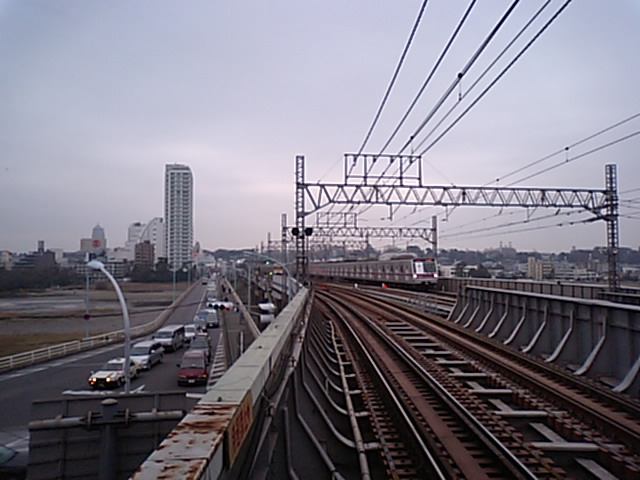 Futagobashi-Bridge over the Tama River (Tokyo/Kanagawa)